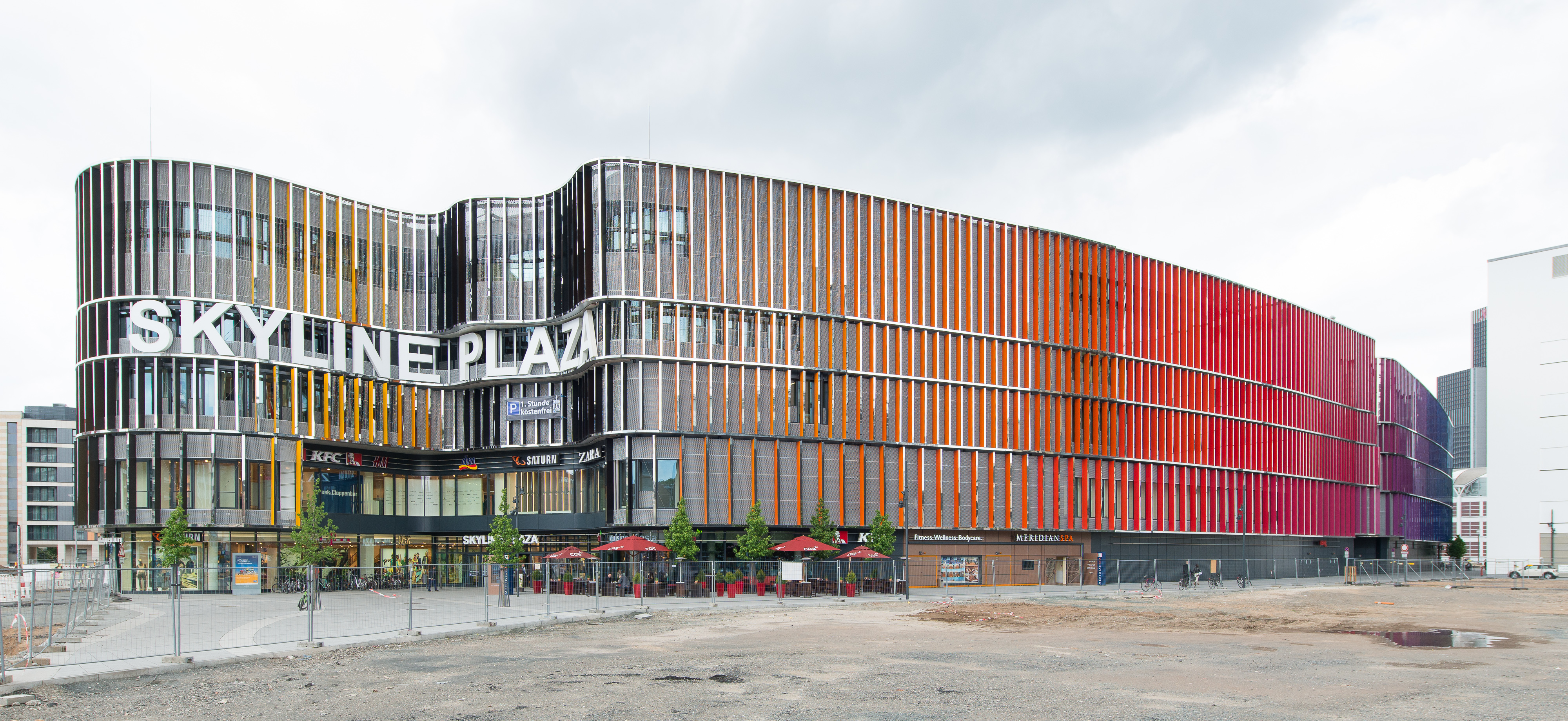 Frankfurt am Main, Skyline Plaza shopping mall as seen from South-East (May 2014)